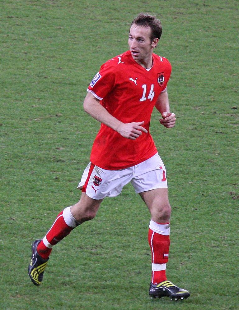 Picture of Austrian Soccer Player Manuel Ortlechner during the WC Qualifier Match AUT - ROM on April 1st, 2009